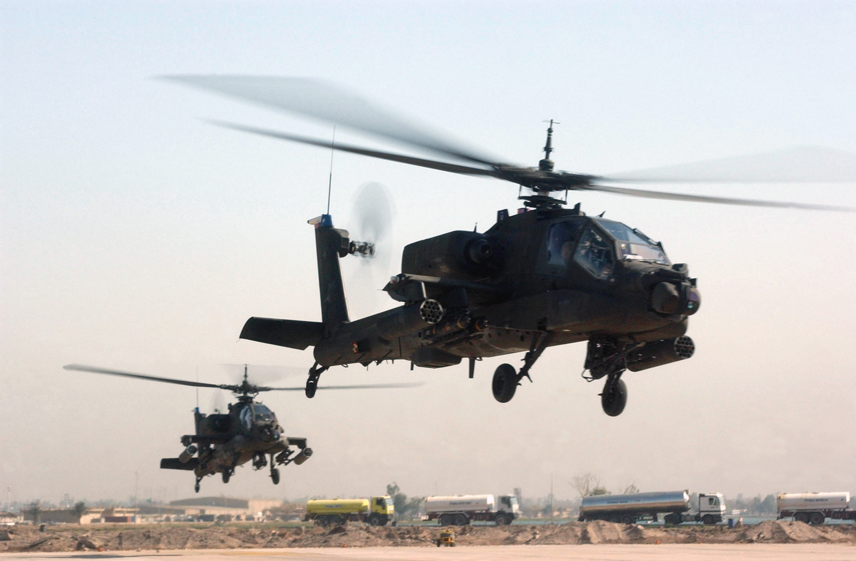 Two U.S. Army AH-64 Apache helicopters take off from Camp Victory, Baghdad Province, Iraq, on March 13, 2007, during Operation Iraqi Freedom. (U.S. Army photo by Sgt. Tierney P. Nowland) (Released)